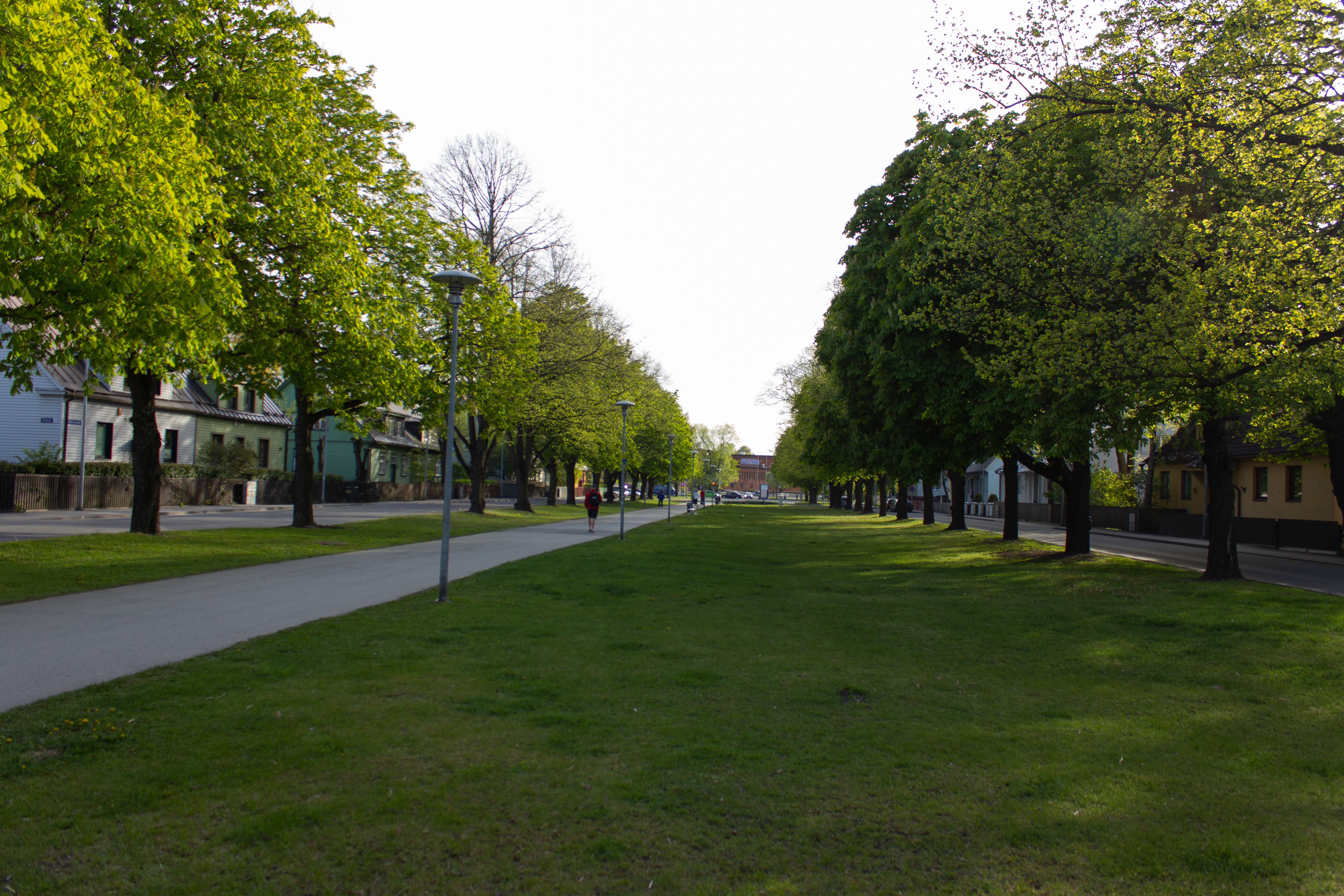 Kolde Boulevard, Tallinn (2020-05-23)